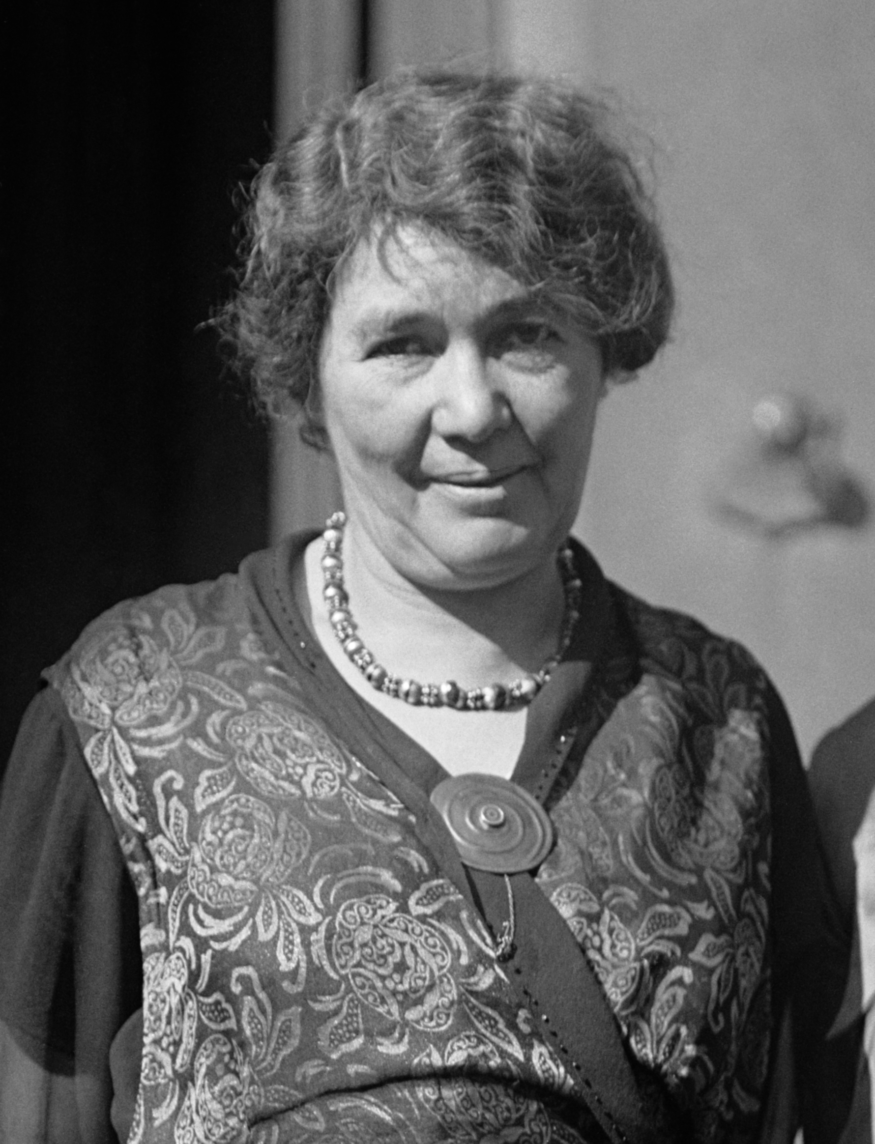 Photograph of activist Emmeline Pethink-Lawrence, cropped from a larger image. See File:Activists Emmeline Pethick-Lawrence and Alice Paul 30393a.tiff for the uncropped image.